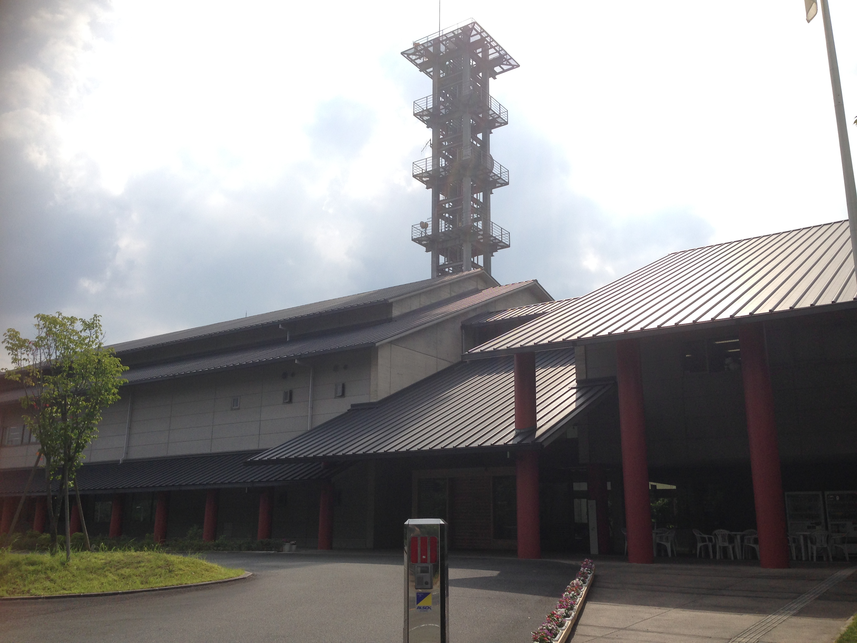 Nara television co.,Ltd(Headquarters),Nara Pref., Japan